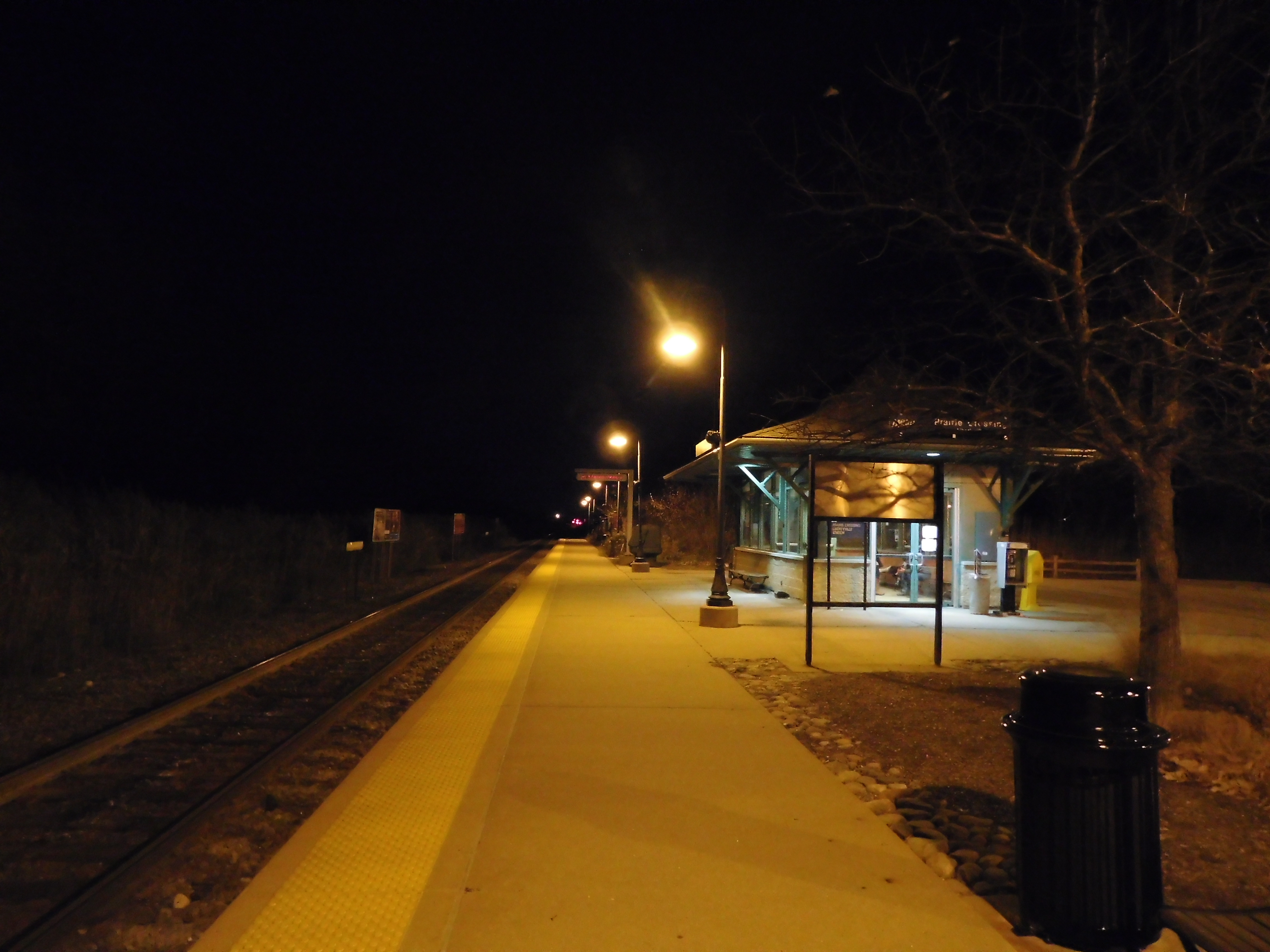 The Prairie Crossing station in November 2016.